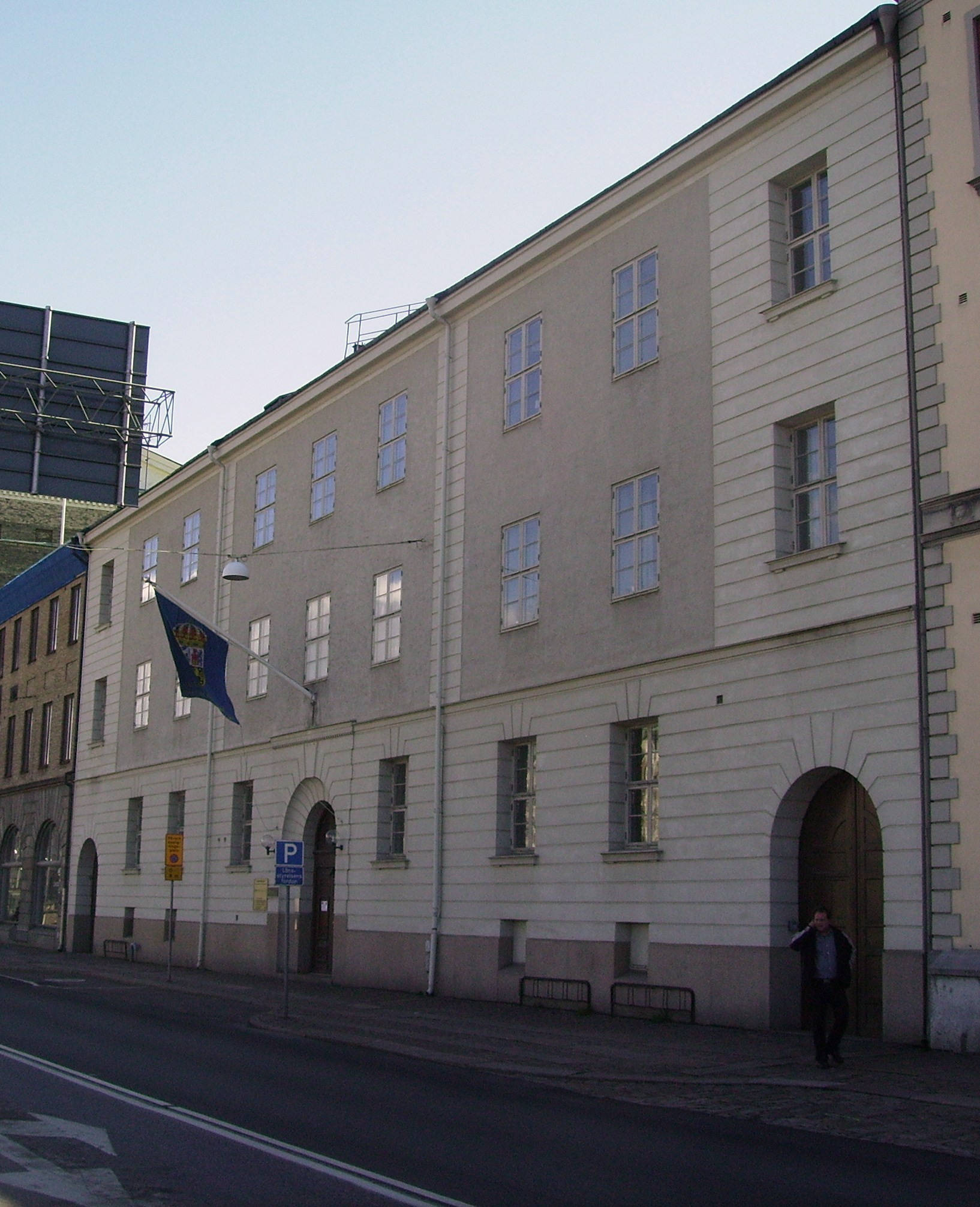 Picture of Västra Götalands län's building in Göteborg